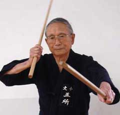 Shihan Gosho Motoharu, master of Hyoho Niten Ichi Ryu Kenjutsu